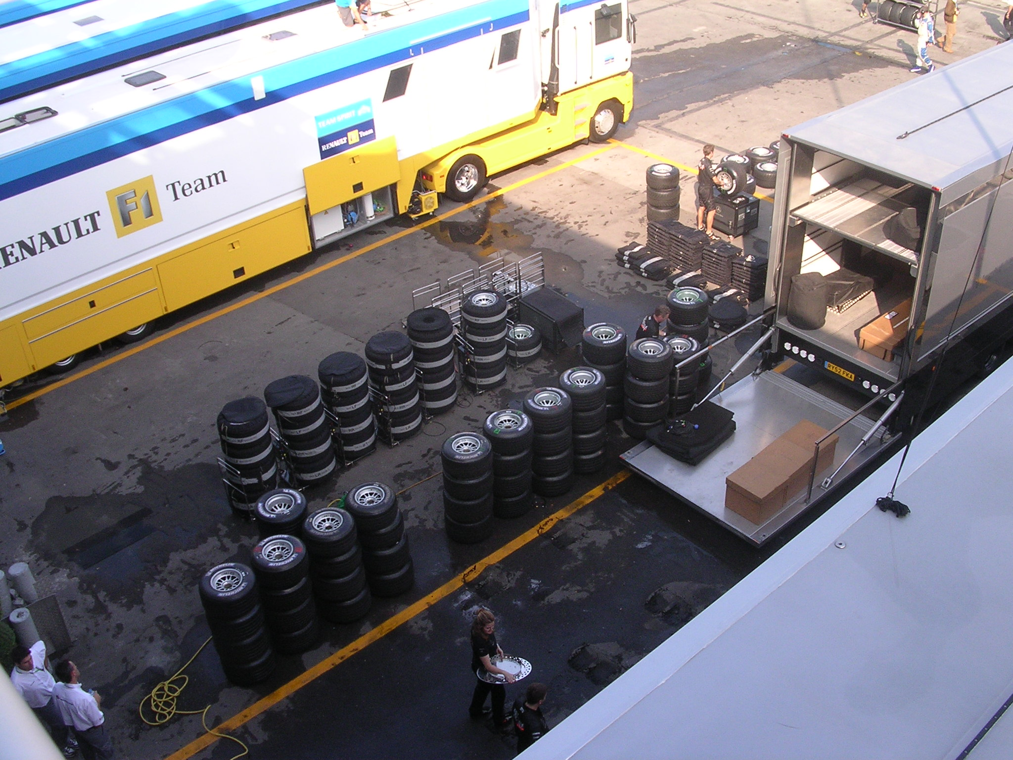 The Autrodomo Nazionale of Monza (italy) during a race in september 2004